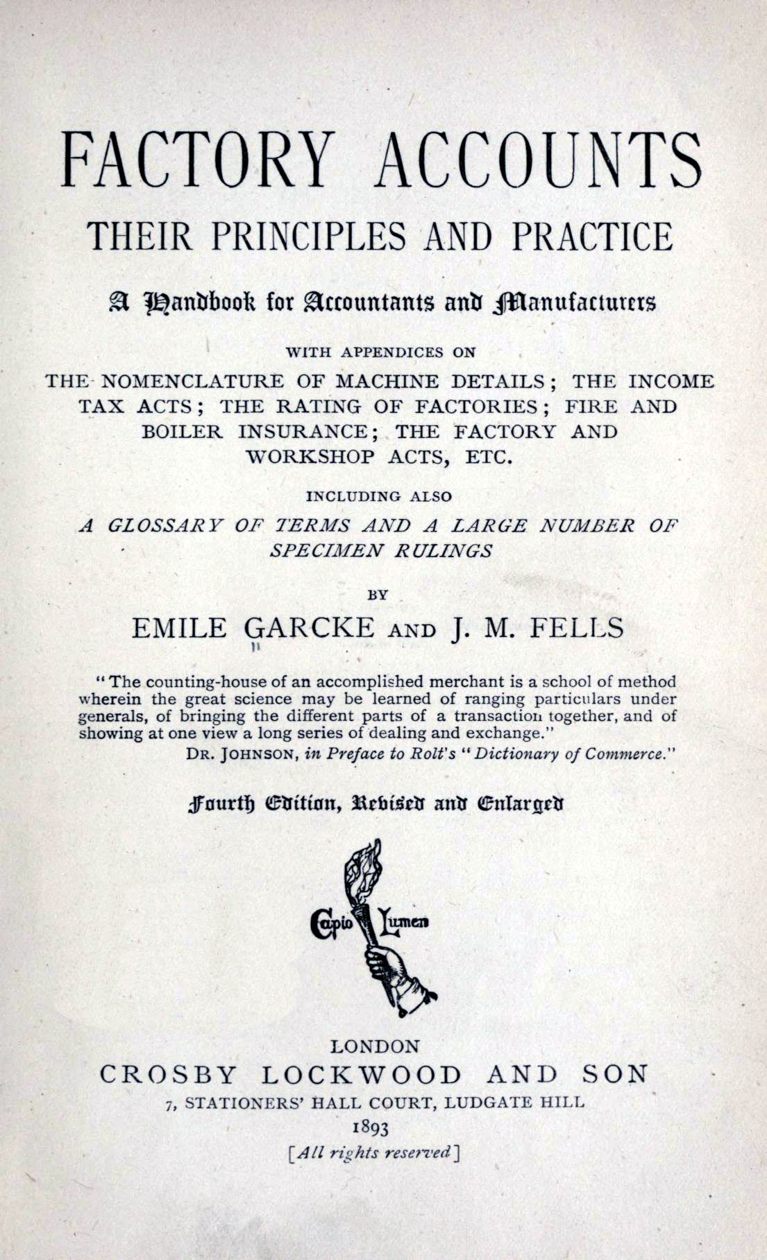 Factory accounts, their principles and practice, 1893 title page